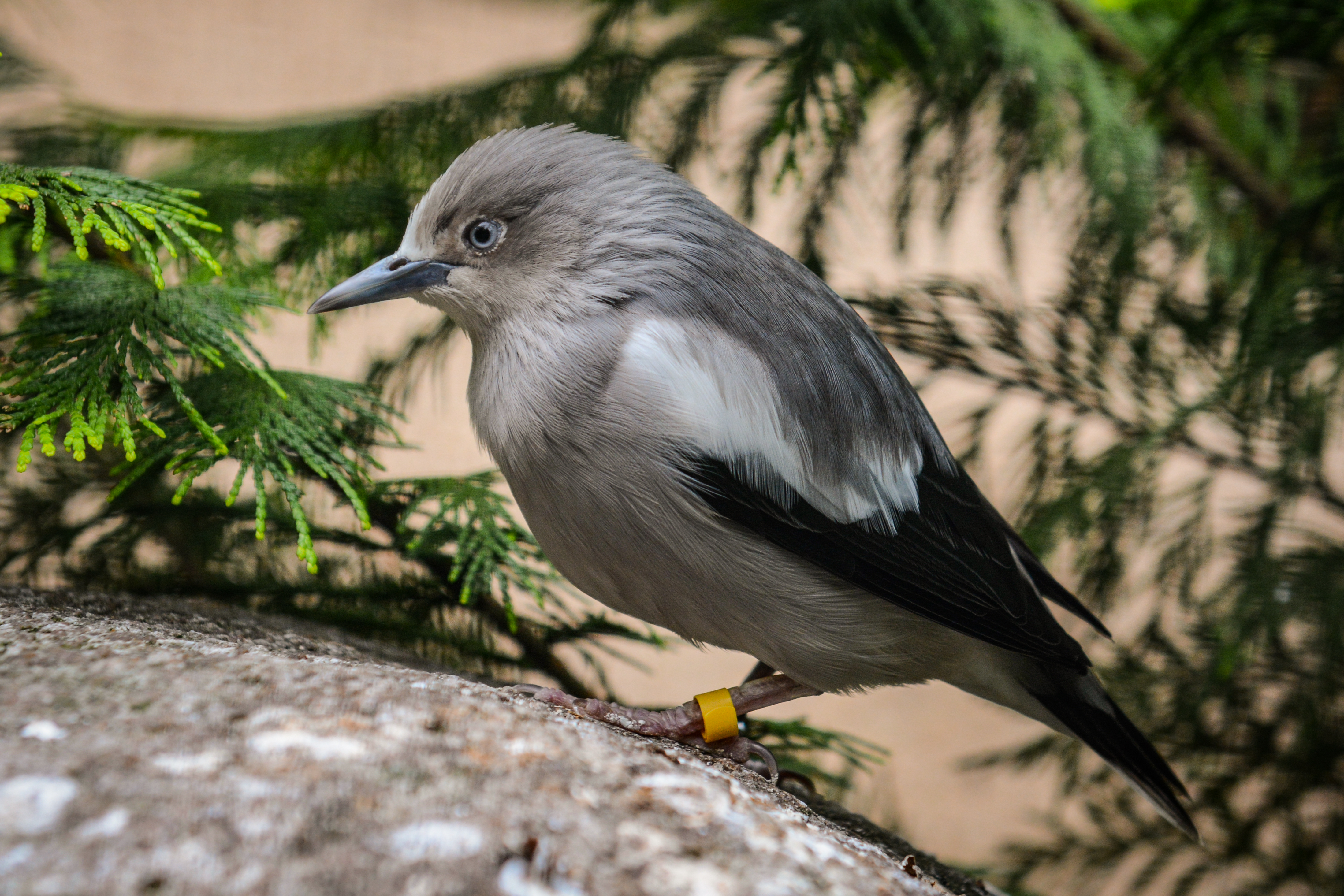 White-shouldered Starling (Sturnia sinensis) at Weltvogelpark Walsrode (Walsrode Bird Park, Germany)